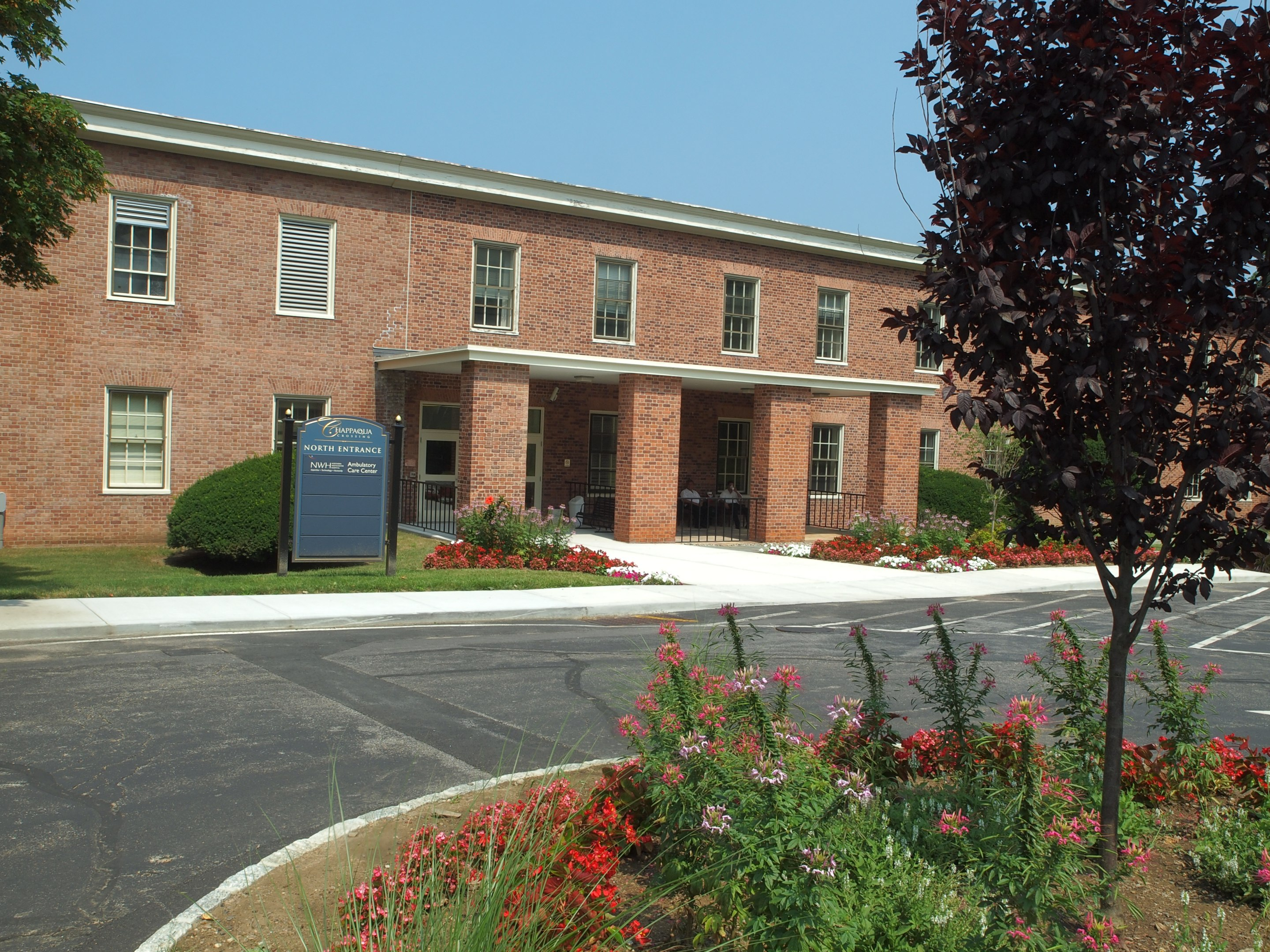 Entrance to NWH Rehab at Chappaqua Crossing